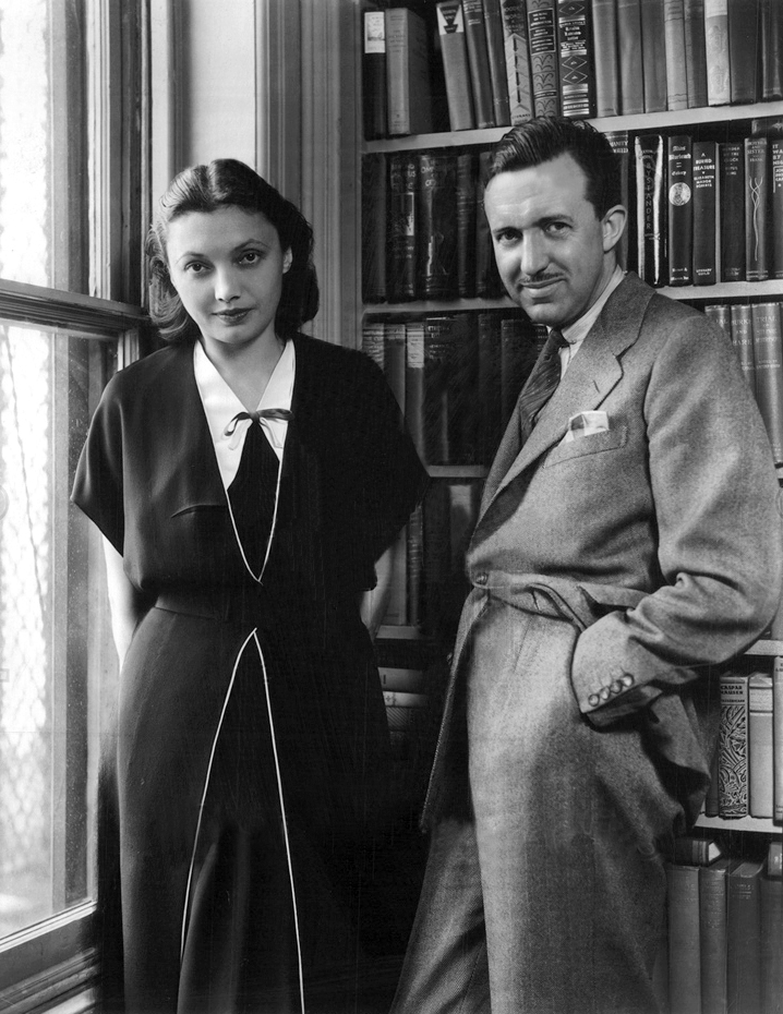 Promotional photograph for the touring production of No Time for Comedy, showing Katharine Cornell and Guthrie McClintic in the library of their townhouse at 23 Beekman Place, New York City